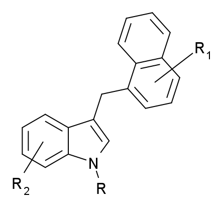 General structure of naphthylmethylindoles